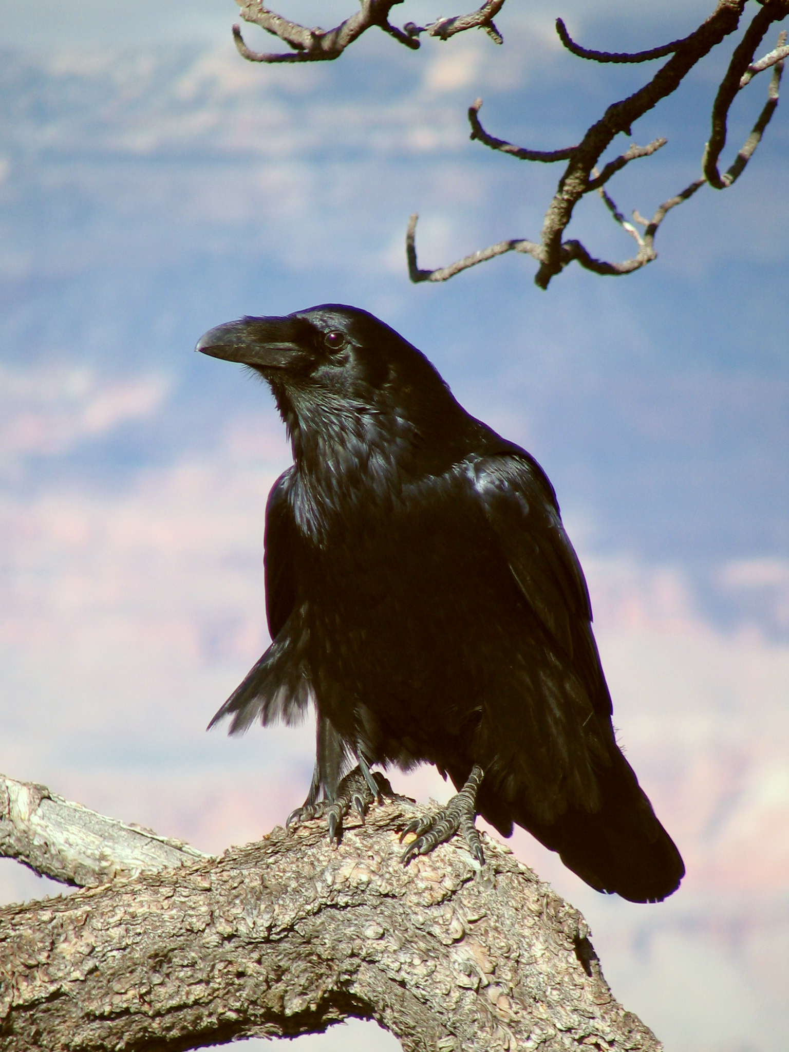 Common Raven Corvus corax, Grand Canyon, Arizona